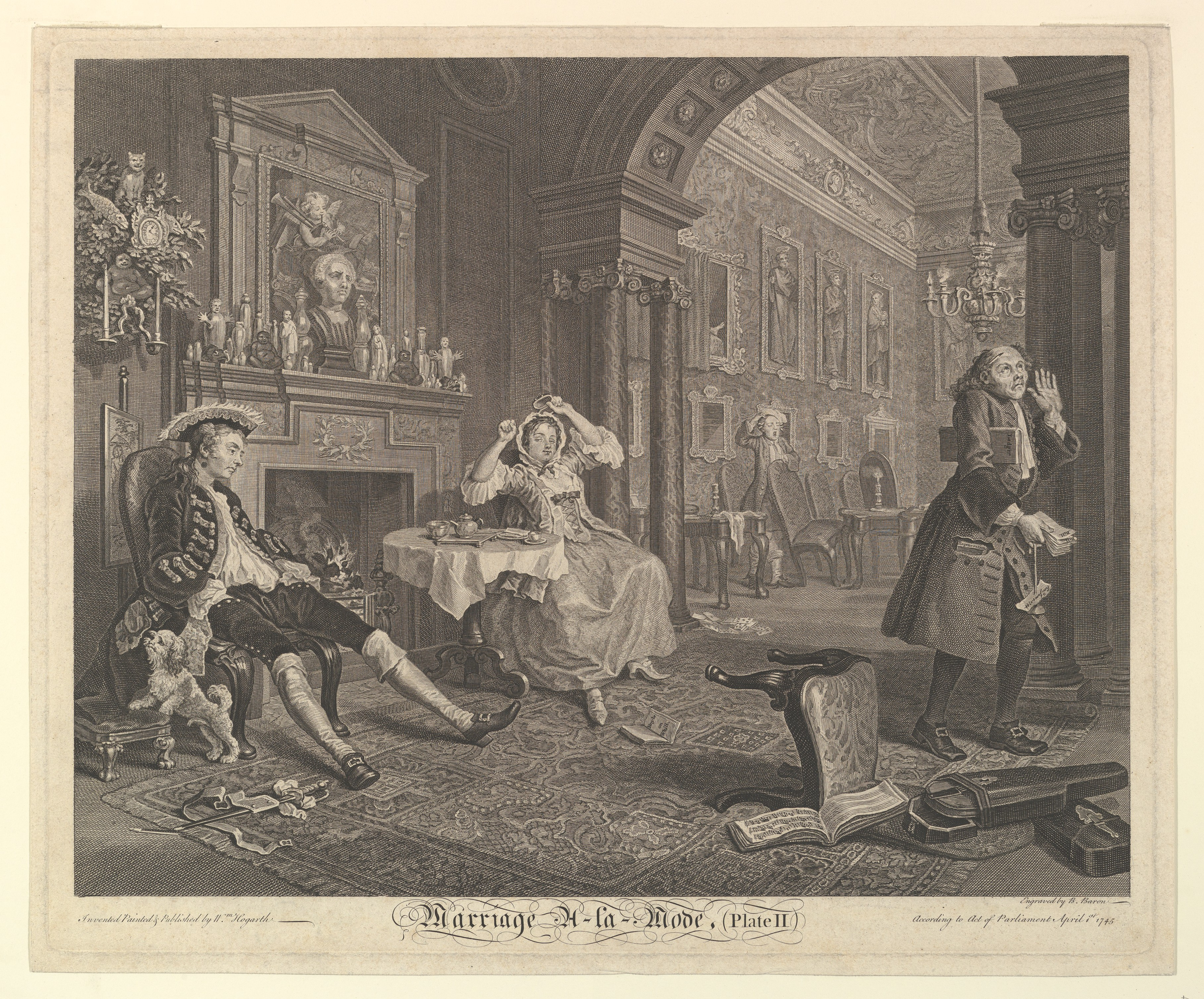 Print; Prints